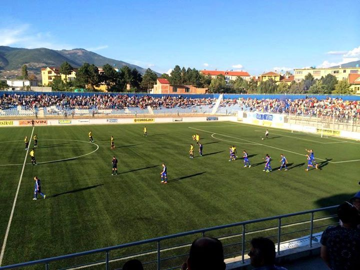 Albanian Superliga football match between FK Kukësi and KF Elbasani at the Zeqir Ymeri Stadium on 31 August 2014